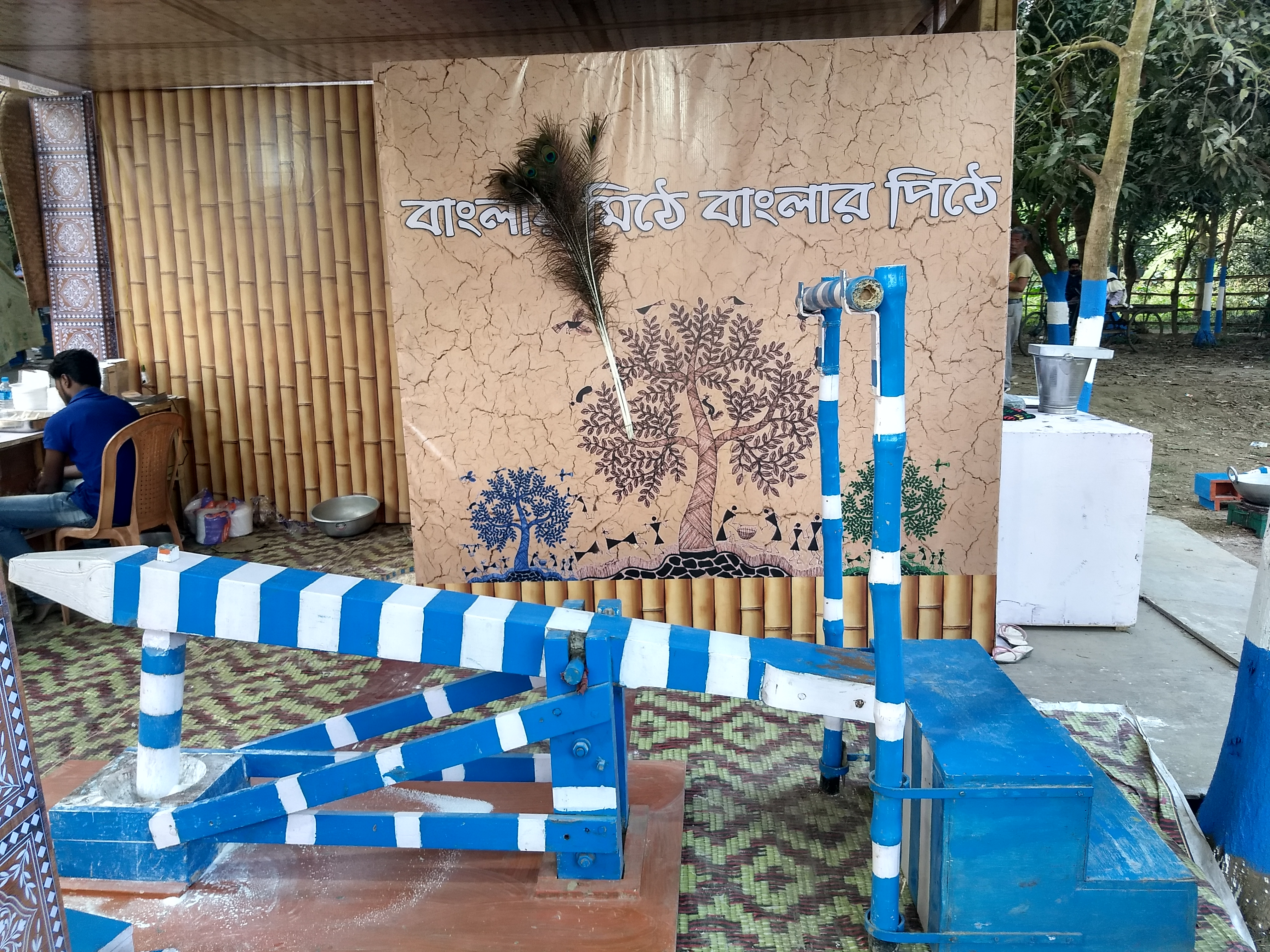 Bengals indigenous cultural part